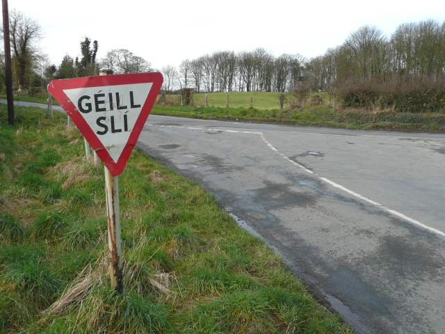 Giving way to Irish in the Baile Ghib Gaeltacht The Baile Ghib or Gibbstown Gaeltacht was originally an area settled by families relocated from poor districts in the west of Ireland in the 1930's. Along with nearby Rath Cairn, it gained official Gaeltacht status in 1967.